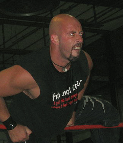 taken by me in Garfield NJ on June 25 2007,for Pro Wrestling Syndicate, all work herin released to wiki community